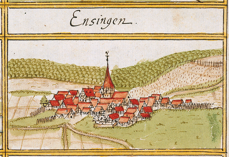 View of Ensingen, Vaihingen an der Enz, from the forest register books created by Andreas Kieser